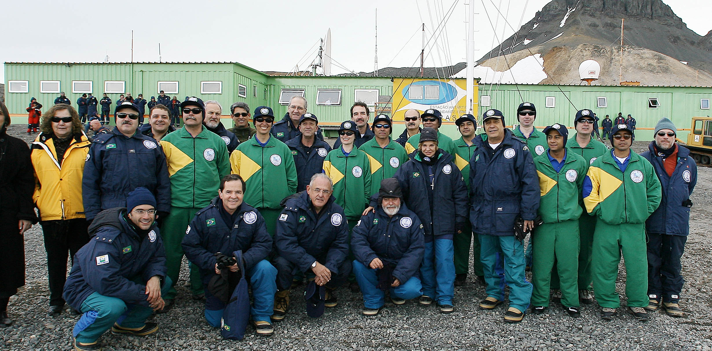 Comandante Ferraz, Brazilian Antarctica - President Luiz Inácio Lula da Silva during a visit to the Brazilian antarctic station on 22 February 2008.